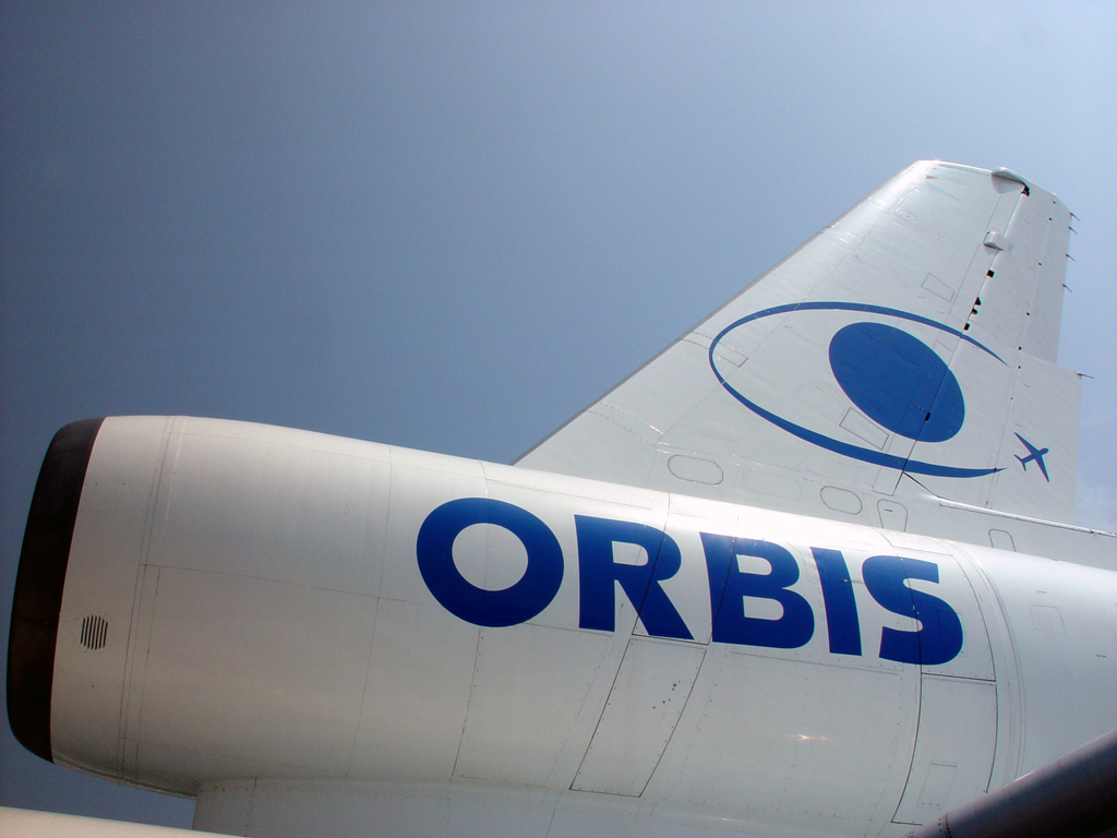 Vertical Stabliser and middle engine of Orbis DC-10 (N220AU). Photo taken in Hong Kong International Airport.